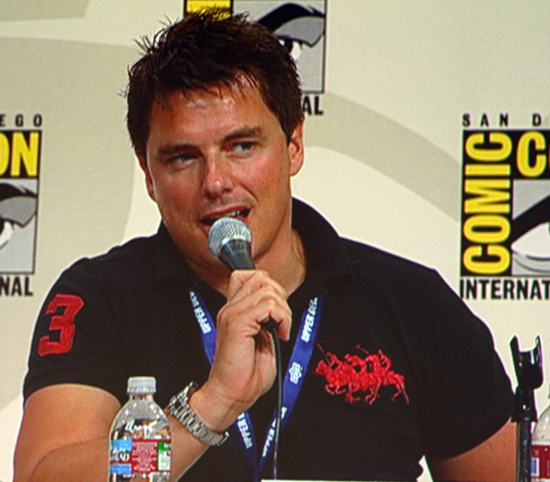 John Barrowman at the Comic-Con Torchwood panel (2008)